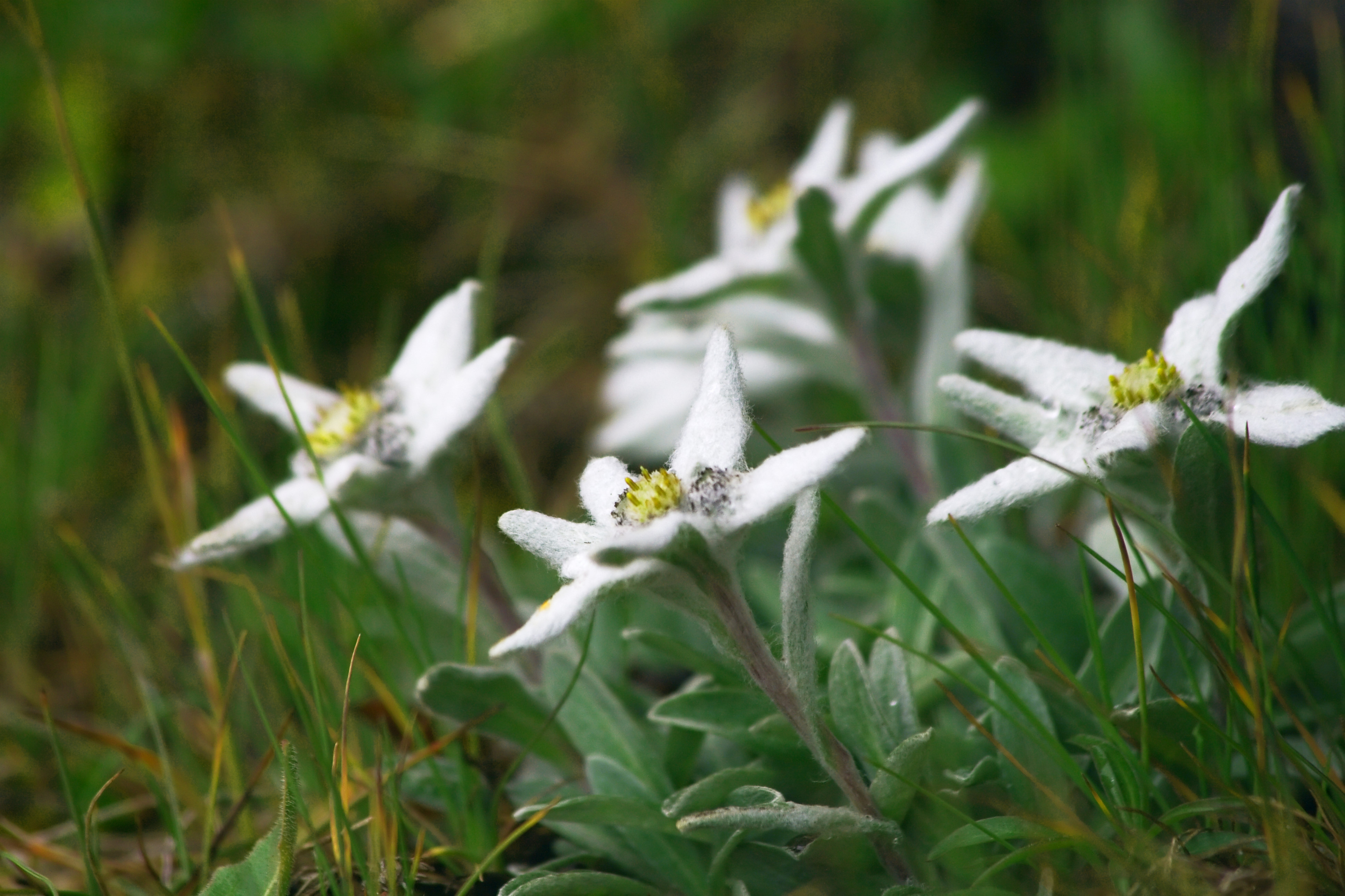 Edelweiss in Austria.